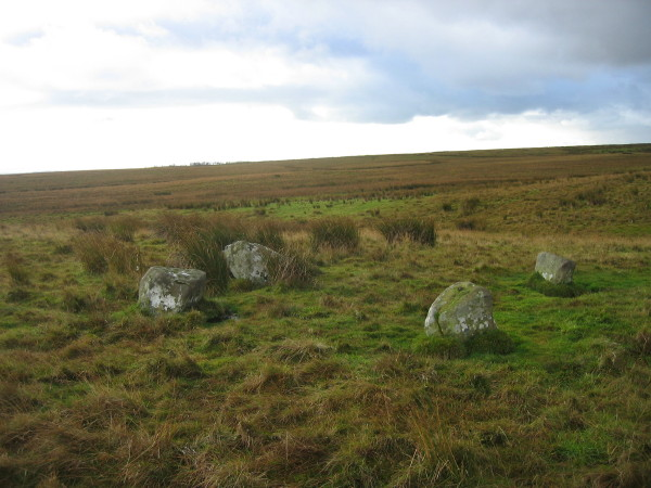 The Goatstones